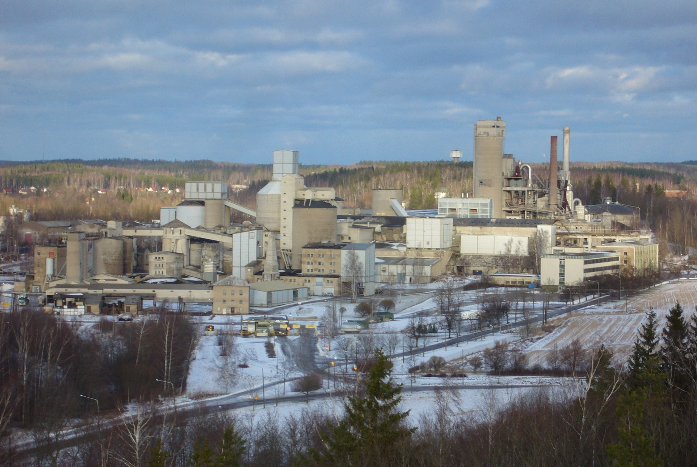 Virkkala limestone- and cement factory, picture taken from the top of Kukkumäki hill. The office building on the far right is the former head office of Oy Lohja Ab.